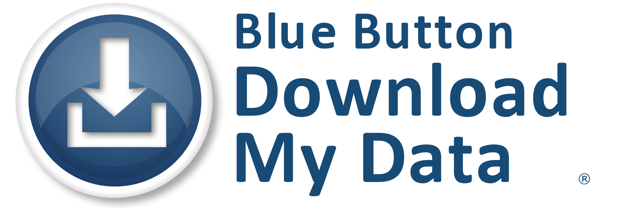 The Blue Button Logo, Service Mark registered by US Dept of Veterans Affairs. Used here under fair use rights.